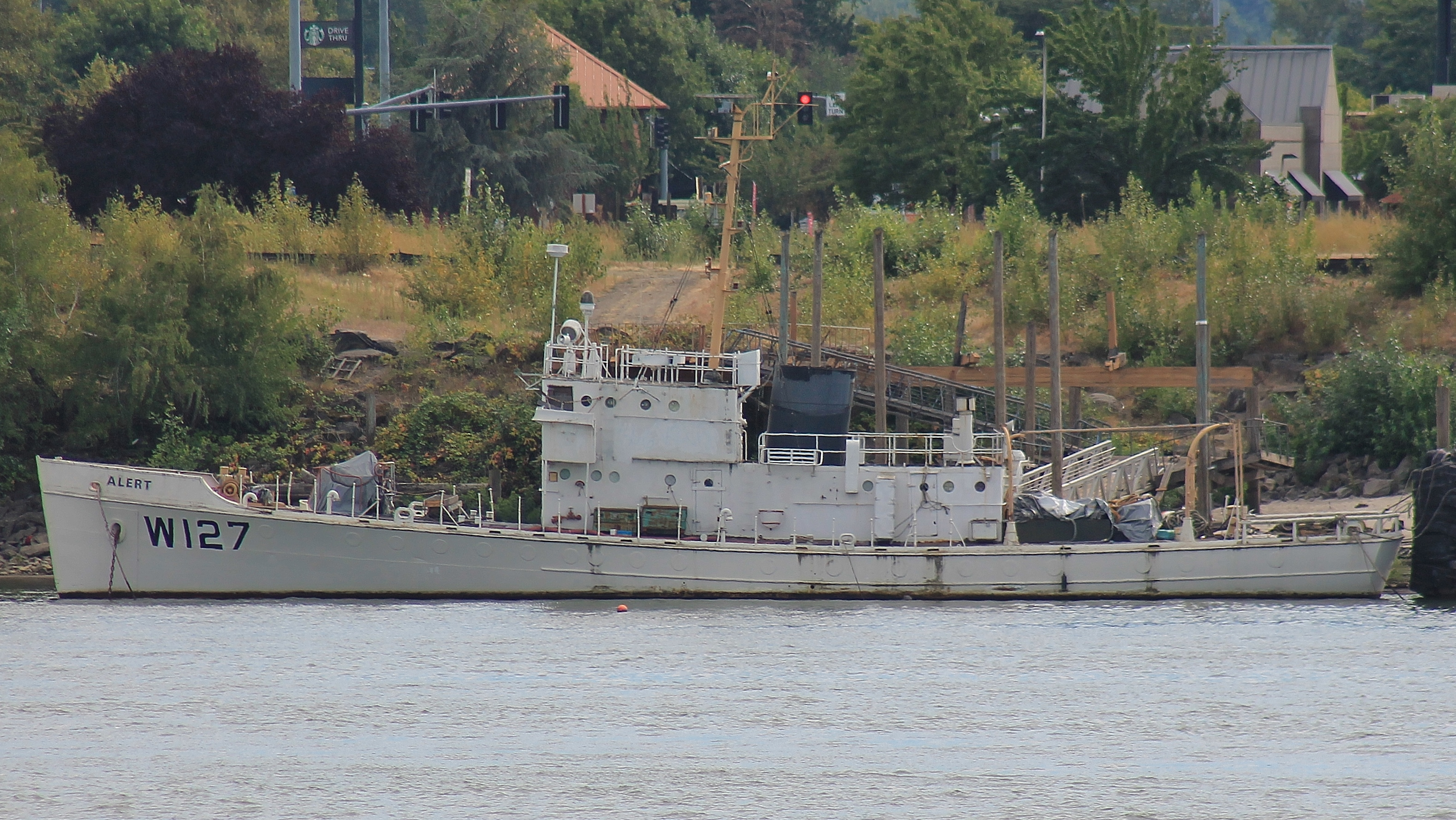 The Active-class cutter USCGC Alert (WMEC-127) moored on the Columbia River, by Hayden Island in Portland, Oregon. Seen on 14 August 2019.